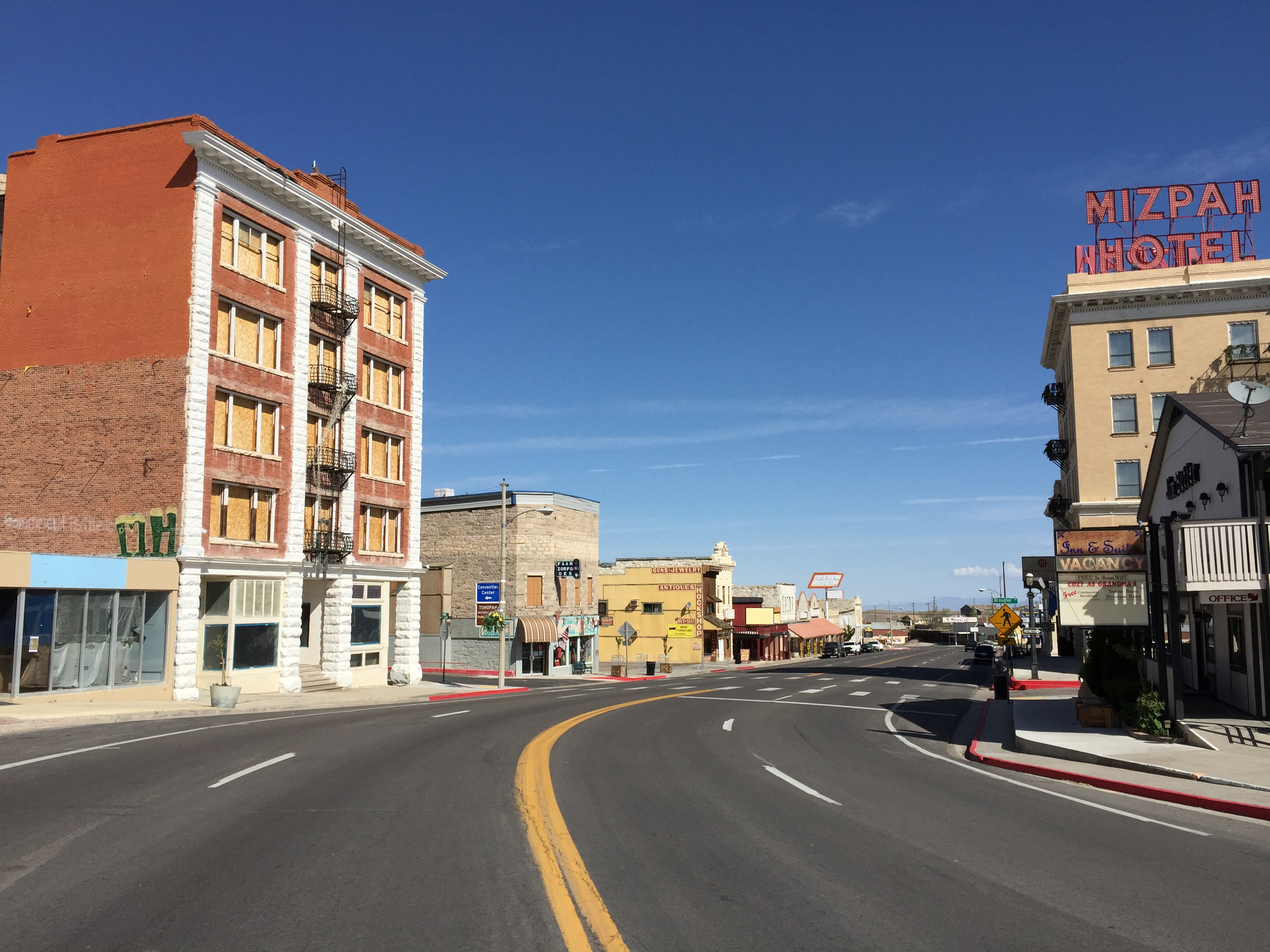 View northwest along Main Street (U.S. Routes 6 and 95) near Bryan Avenue in Tonopah, Nevada